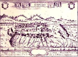 Medieval plan of Oppido Mamertina